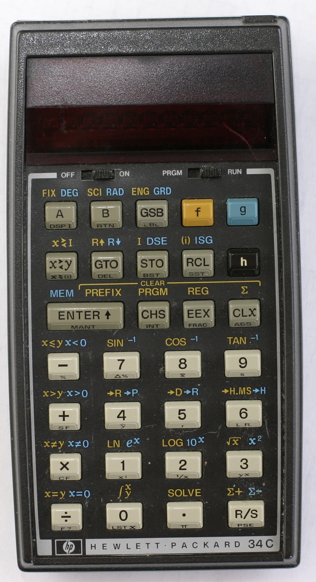 Hewlett Packard HP-34C Calculator